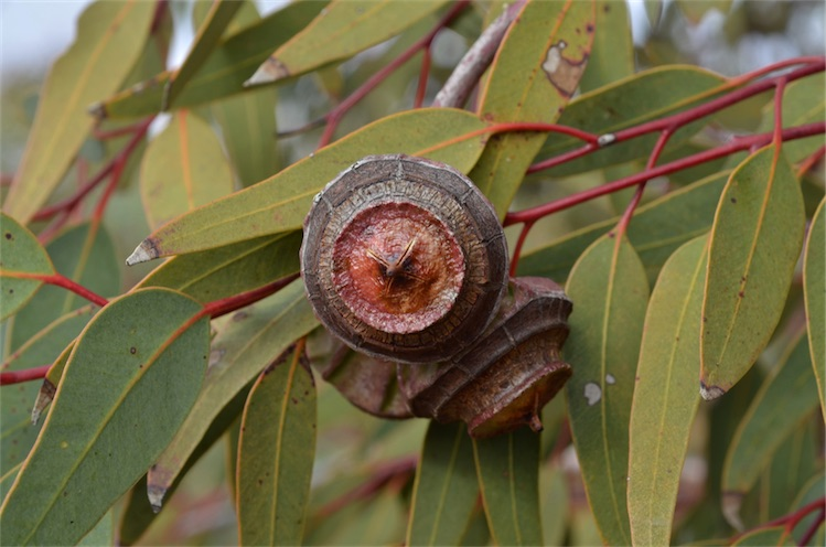 Fruit of Eucalyptus youngiana in the Australian Arid Lands Botanic Gardens, Port Augusta, South Australia